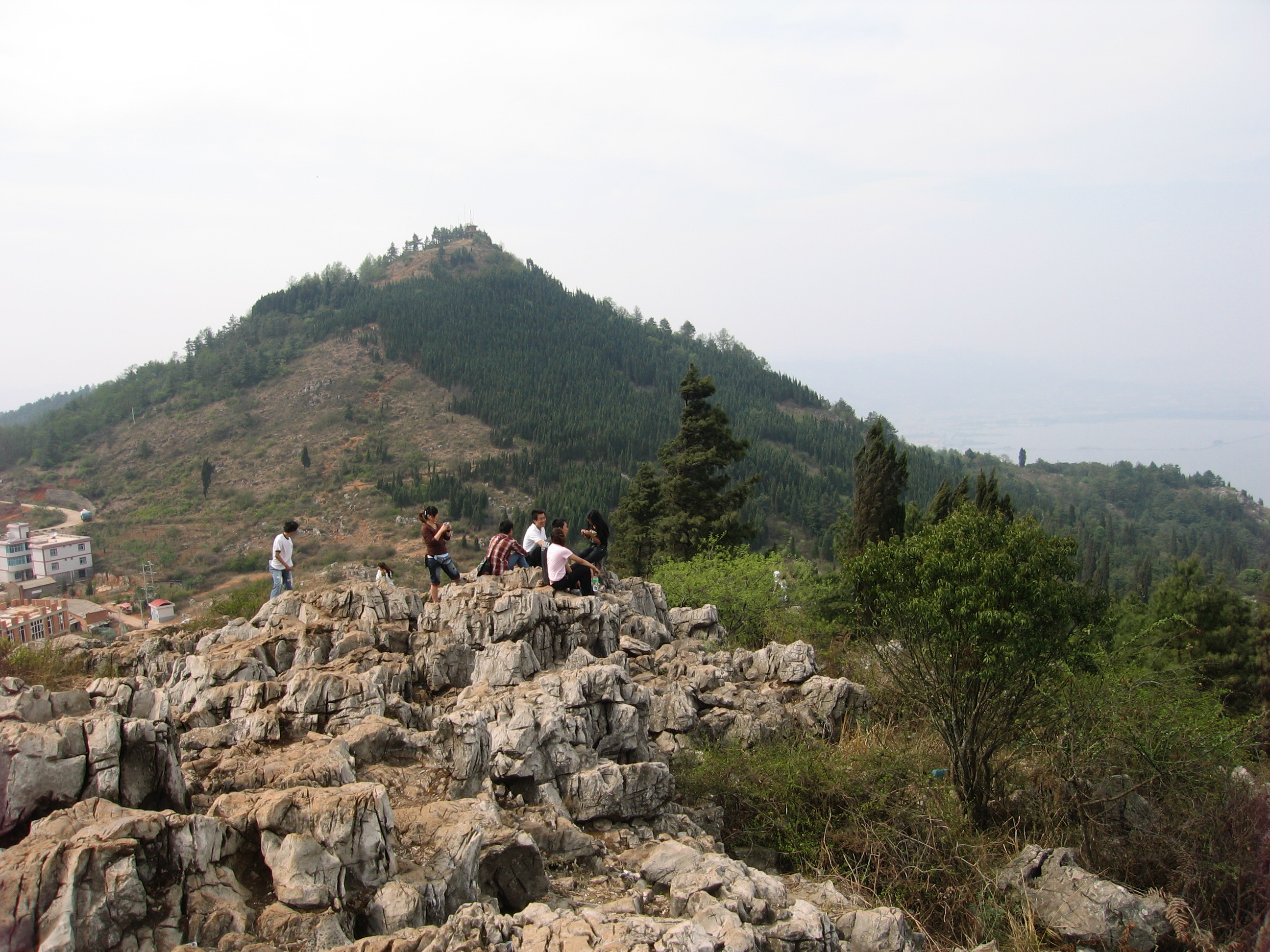 The Western Hills (Xi Shan) to the south of Kunming.